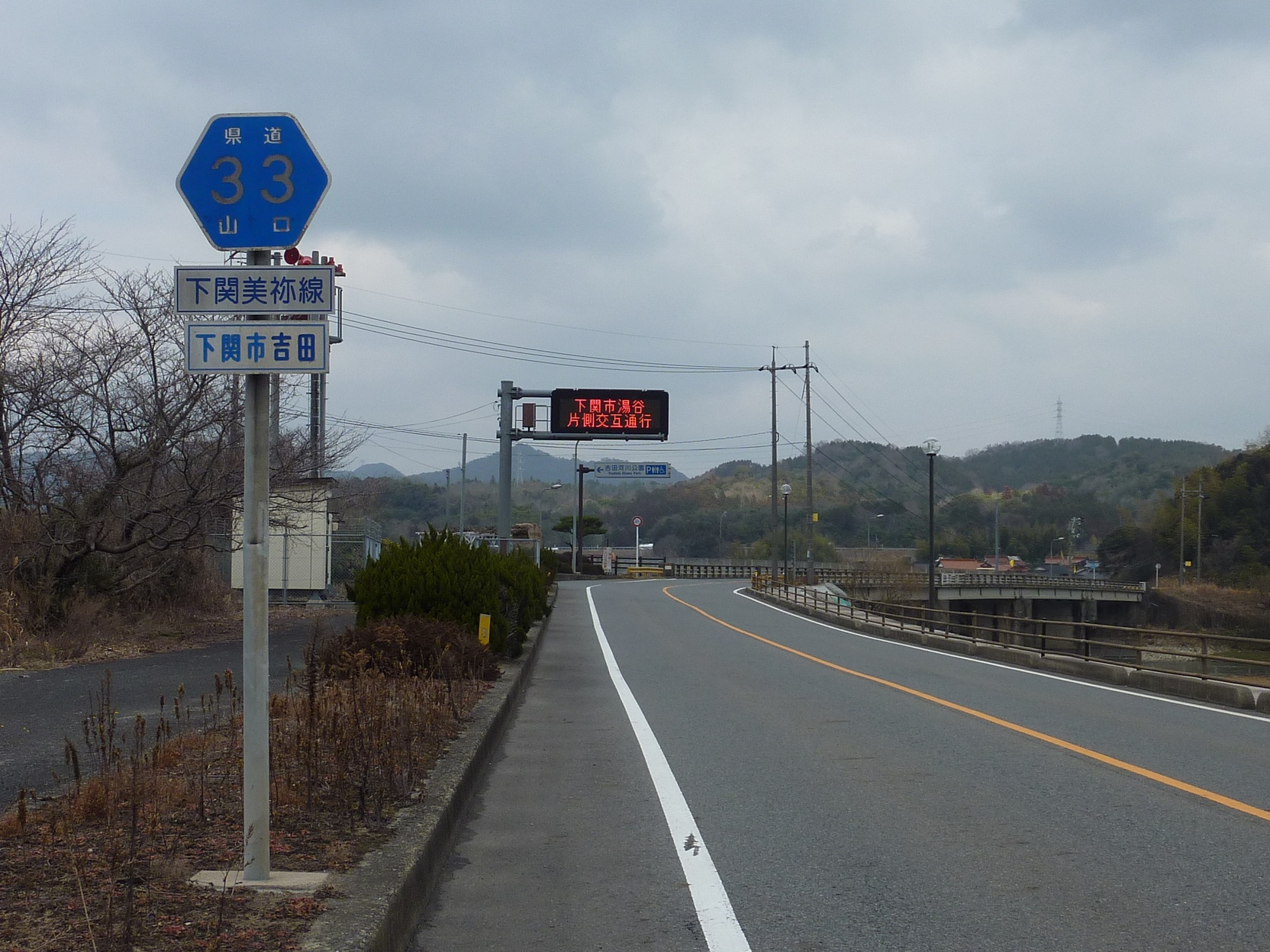 Yamaguchi Prefectural Road No.33 Shimonoseki-Mine Line (Yoshida, Shimonoseki City, Yamaguchi Japan)